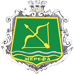 Coat of Arms Merefa (Kharikiv Oblast Ukraine)